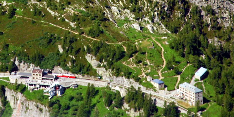 Montenvers, Chamonix valley, France